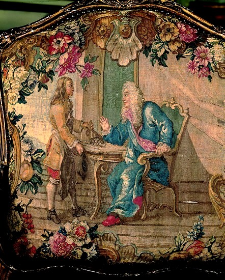 A Beauvais tapesty used as furniture backing: La Fontaine's fable of the Cobbler and the Financier, based on a design by J-B Oudry